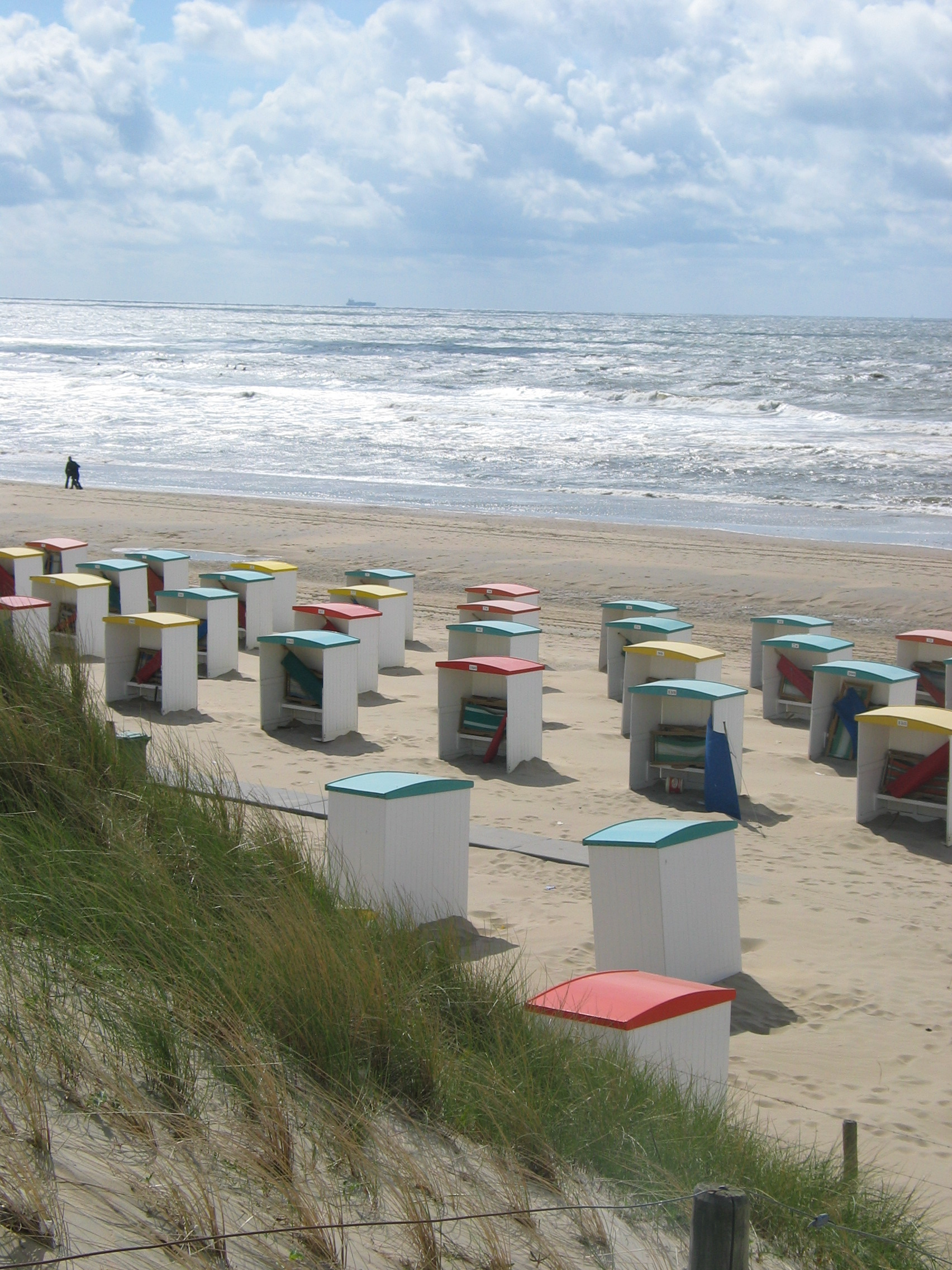 Beach at Katwijk aan Zee on a blustery spring day